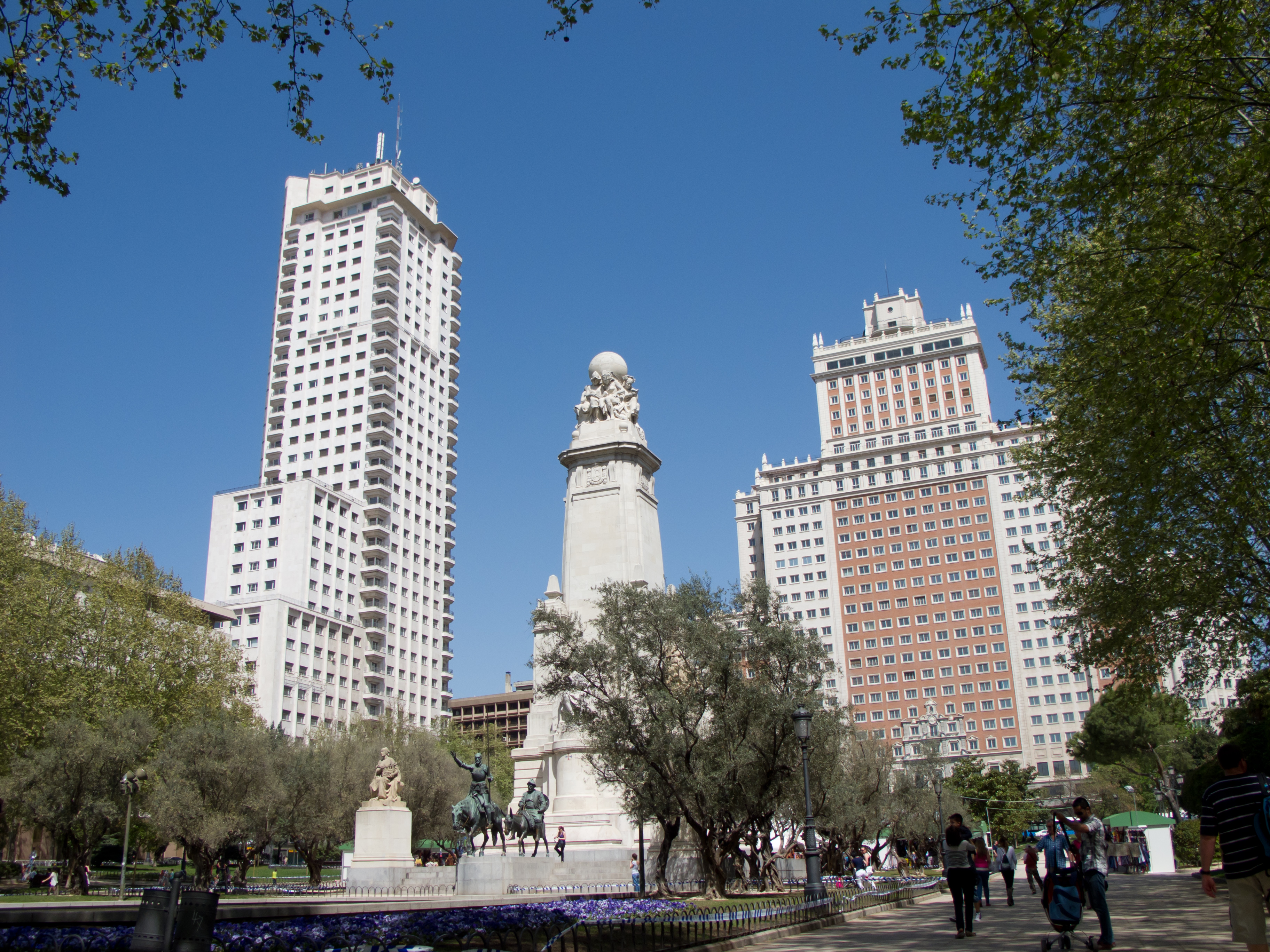 Plaza de España, Madrid, Spain.